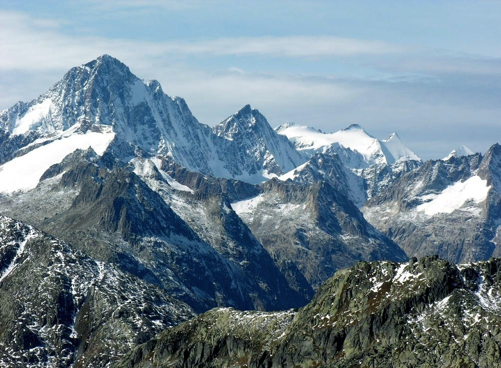 Finsteraarhorn (left), Agassizhorn (center) and the three snow covered summits of Hinter Fiescherhorn, Fiescherhorn, Ochs, in the bernese alps, Switzerland.